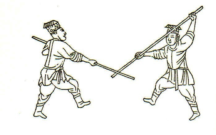 Korean Warriors using the staff, from Muye Dobo Tongji.